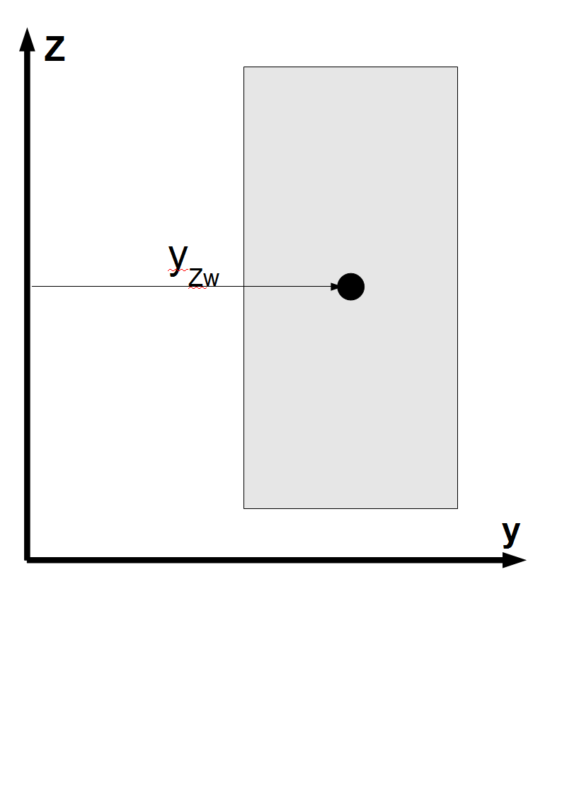 First moment of area